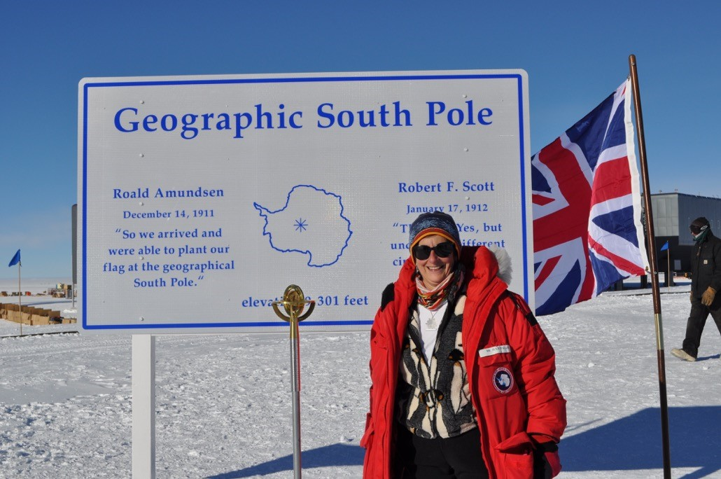 Julie Palais. This photo was taken on the 100th Anniversary of Robert F. Scott's arrival at the South Pole January 17, 1912.